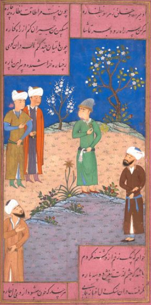 Shirvan manuscript, 1468. Selections from the Divan of Jami Miniature. Four men watching a handsome youth